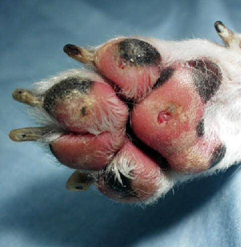 Dog with footpad ulcers caused by cutaneous vasculitis